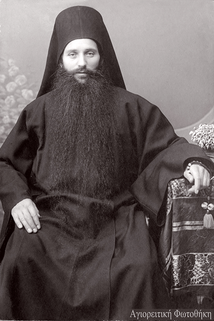 Athanasius of Zograf Self-Portrait